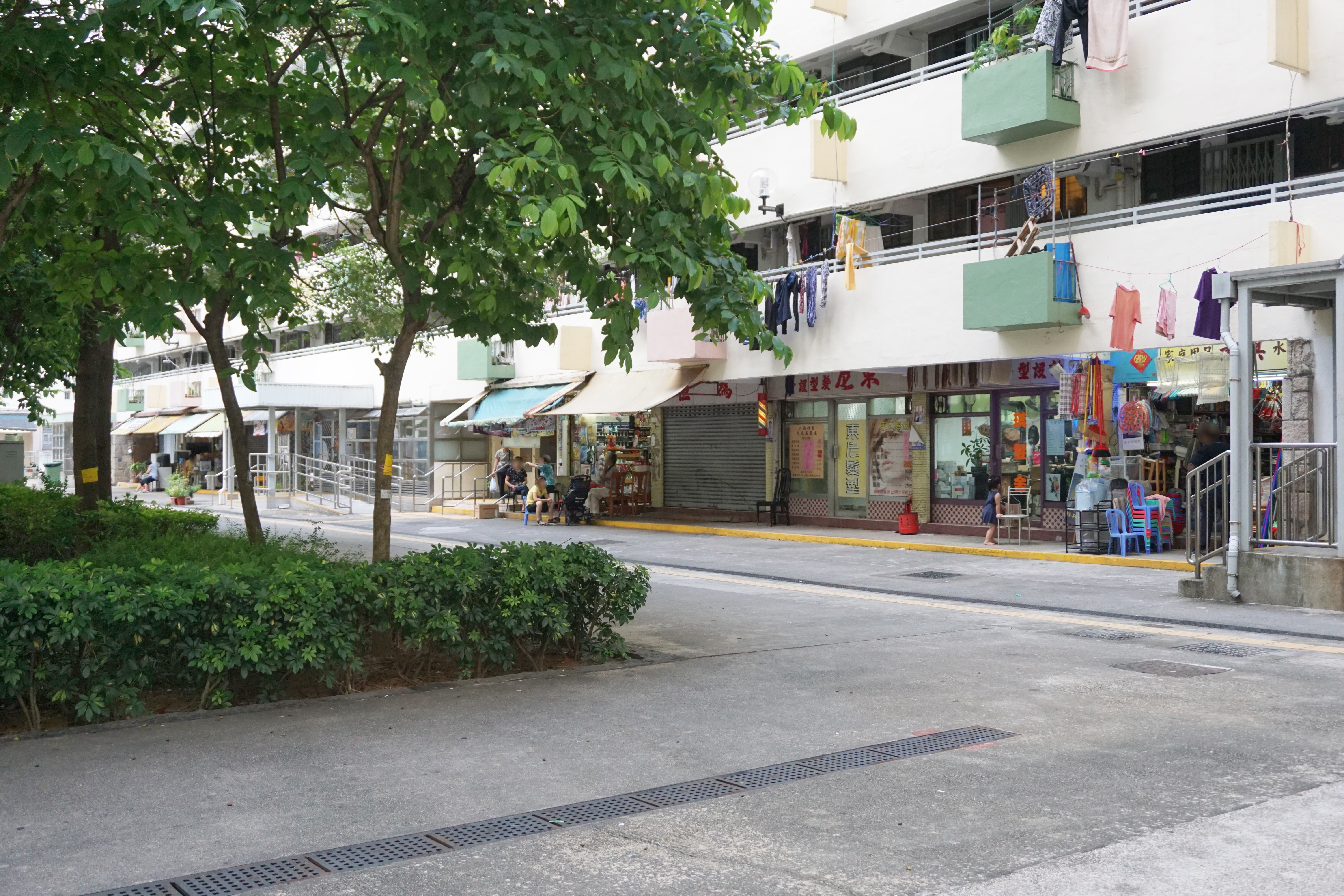 Lei Muk Shue Estate in Wo Yi Hop, Hong Kong.